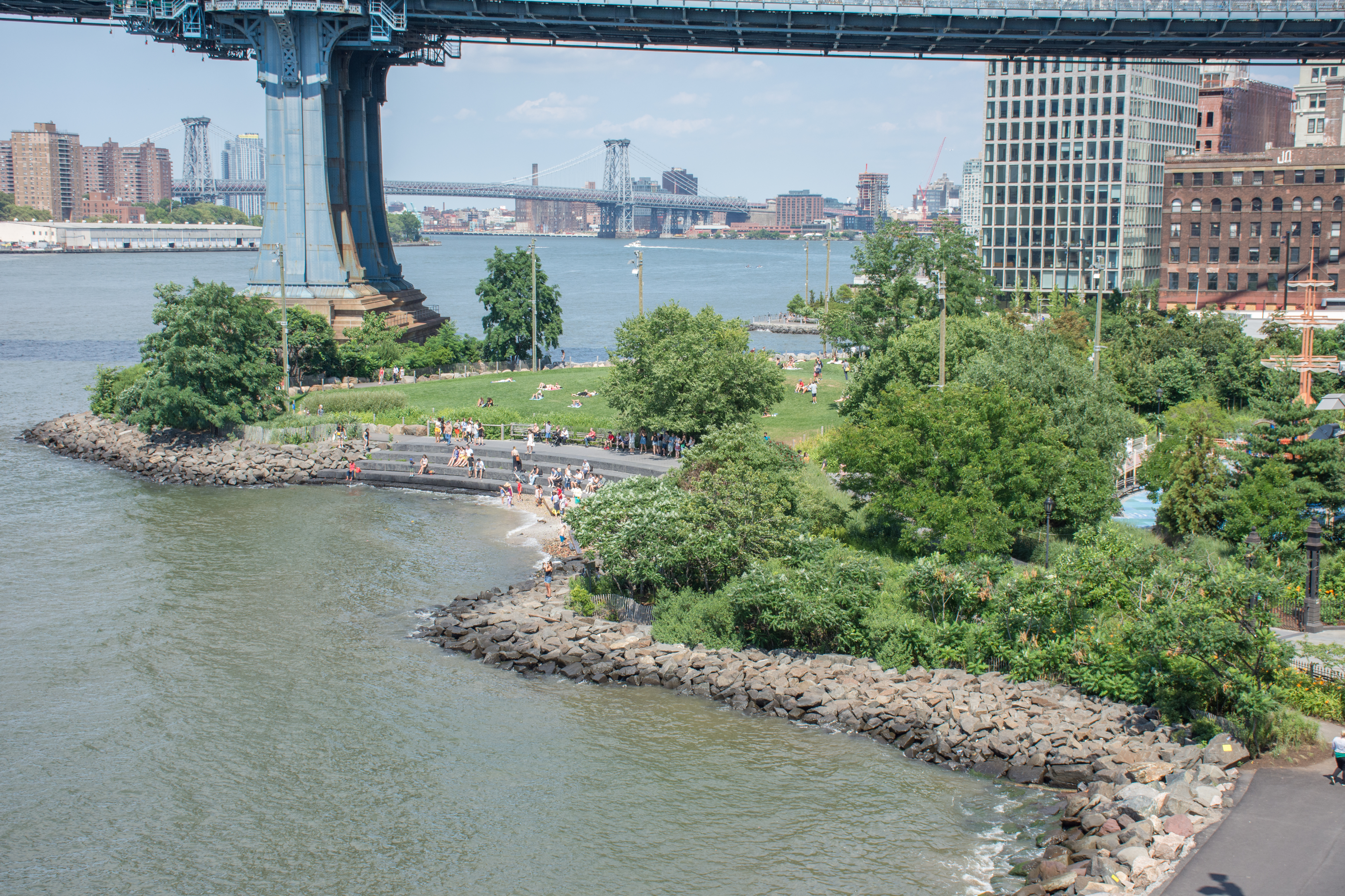 The Main Street section of the Brooklyn Bridge Park in Dumbo, Brooklyn, July 2017.